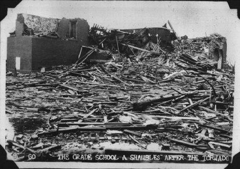 Damage from the 1955 Udall Kanas tornado